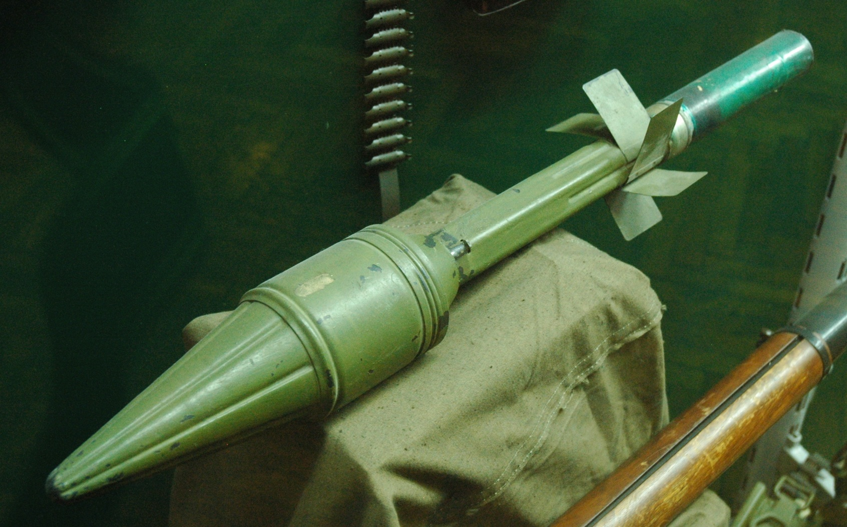 Soviet PG-2 82 mm grenade (Central Museum of Ukrainian Armed Forces, Kyiv)